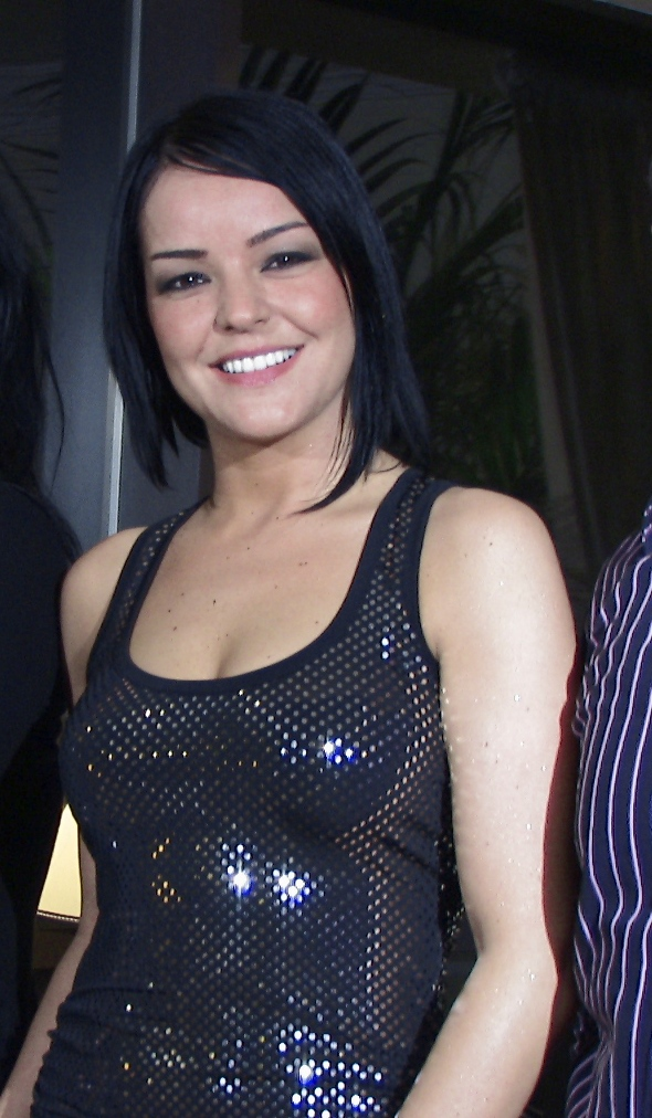 Turkish musician Bengü.